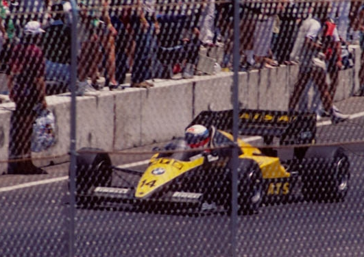 Manfred Winkelhock, #14 ATS-BMW placed 8th here. He was killed in a crash on 12 Aug 1985 in a Porsche 956 at the Budweiser 1000 km World Sportscar Championship near Toronto.